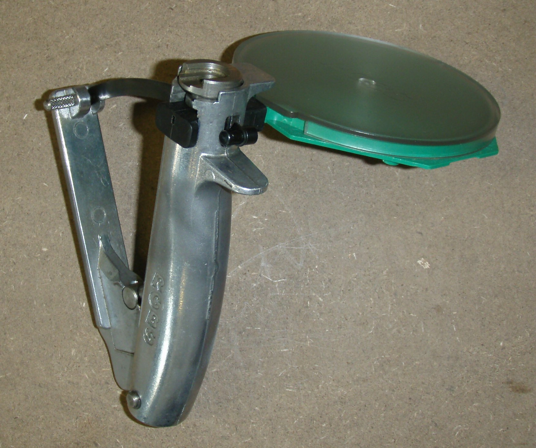 RCBS Priming tool for ammunition handloading